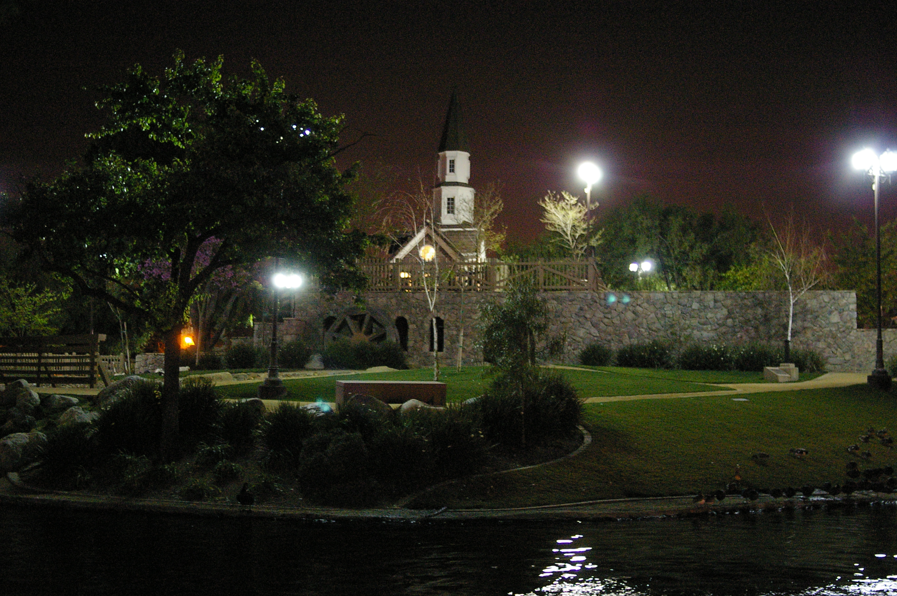 Heritage Park, Cerritos, California.